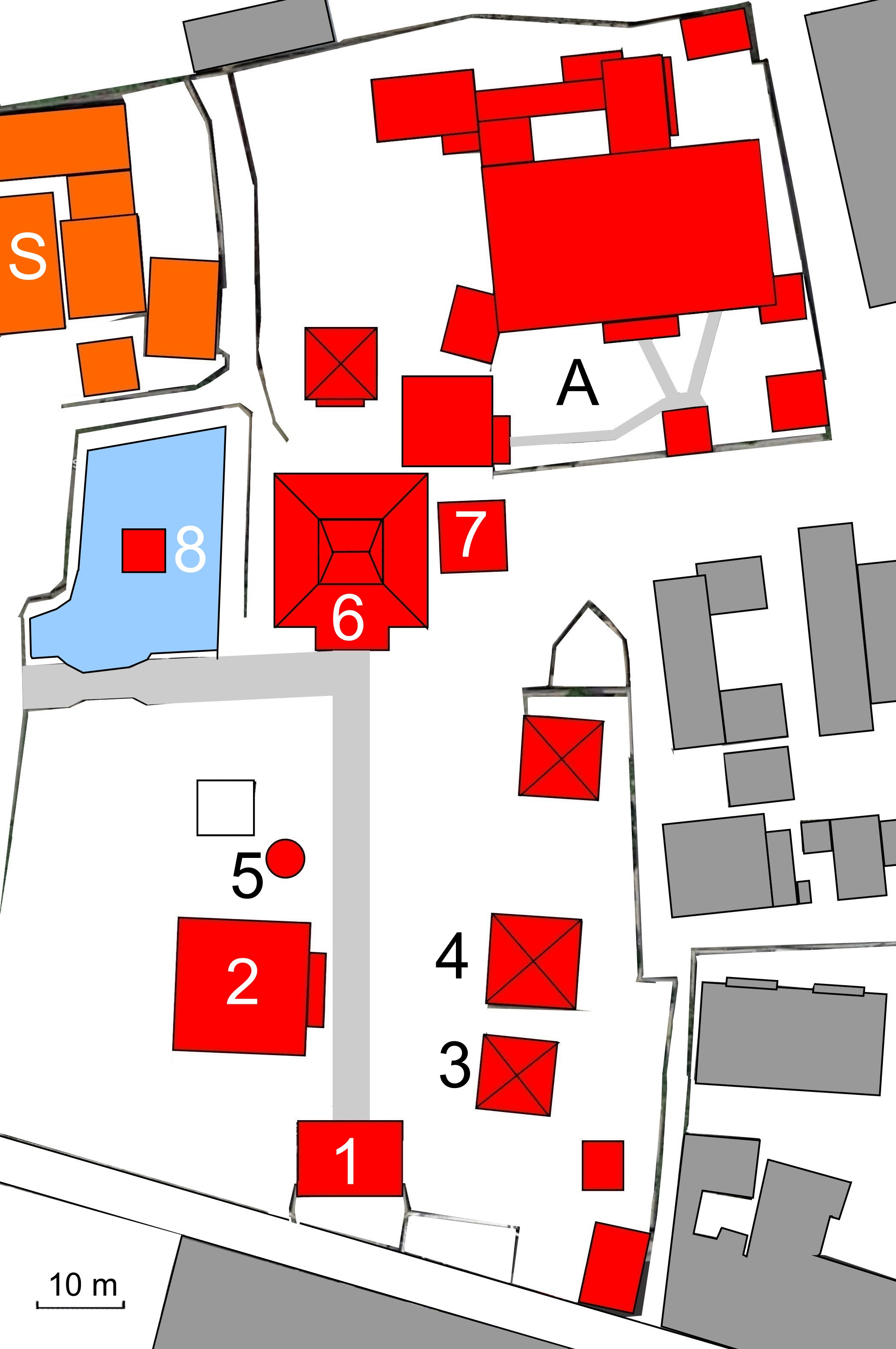 Layout of Sagami-ji temple at Kasai, Hyogo prefecture, Japan